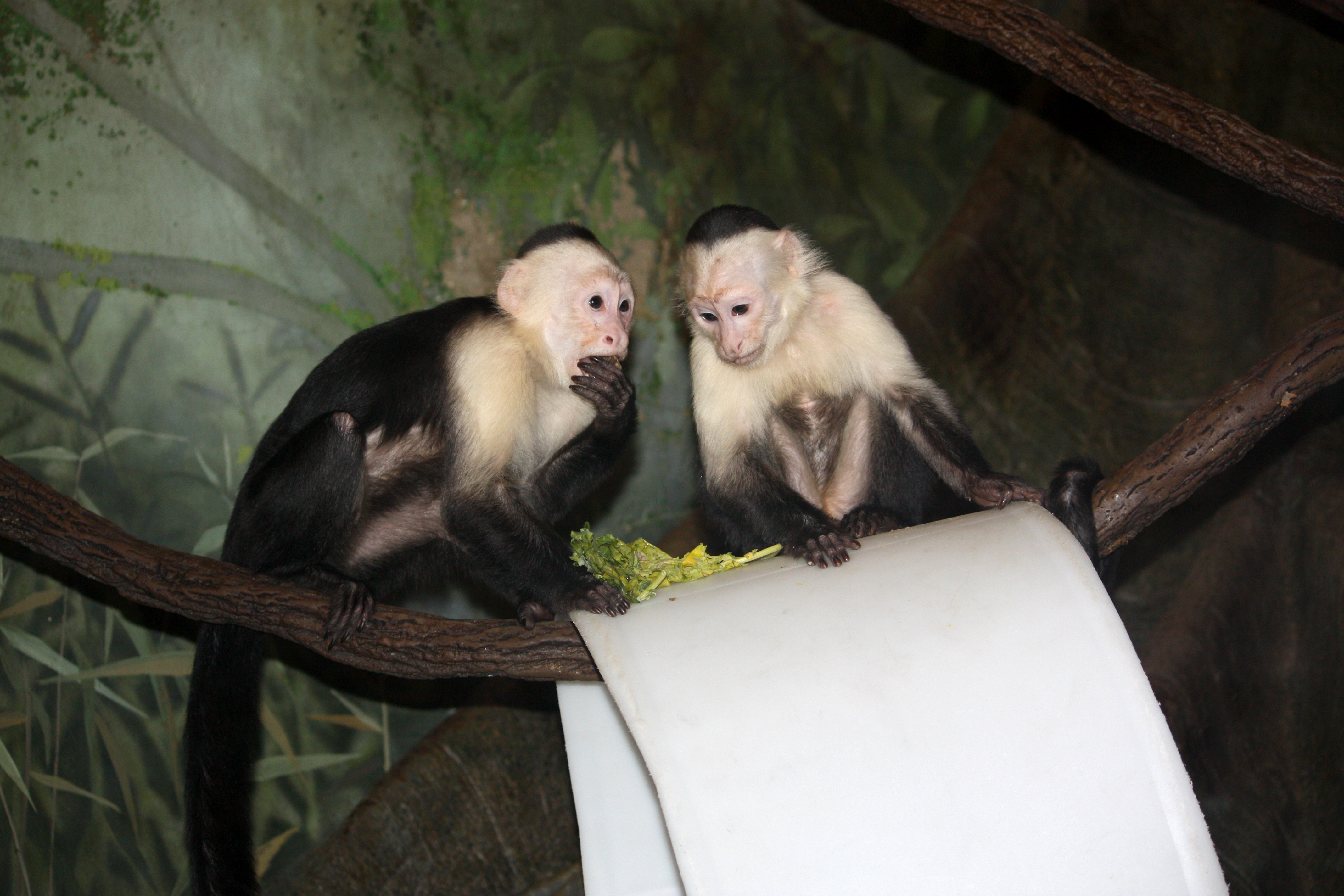 White-throated Capuchin (Cebus capucinus) feeding. Bronx Zoo, New York City.